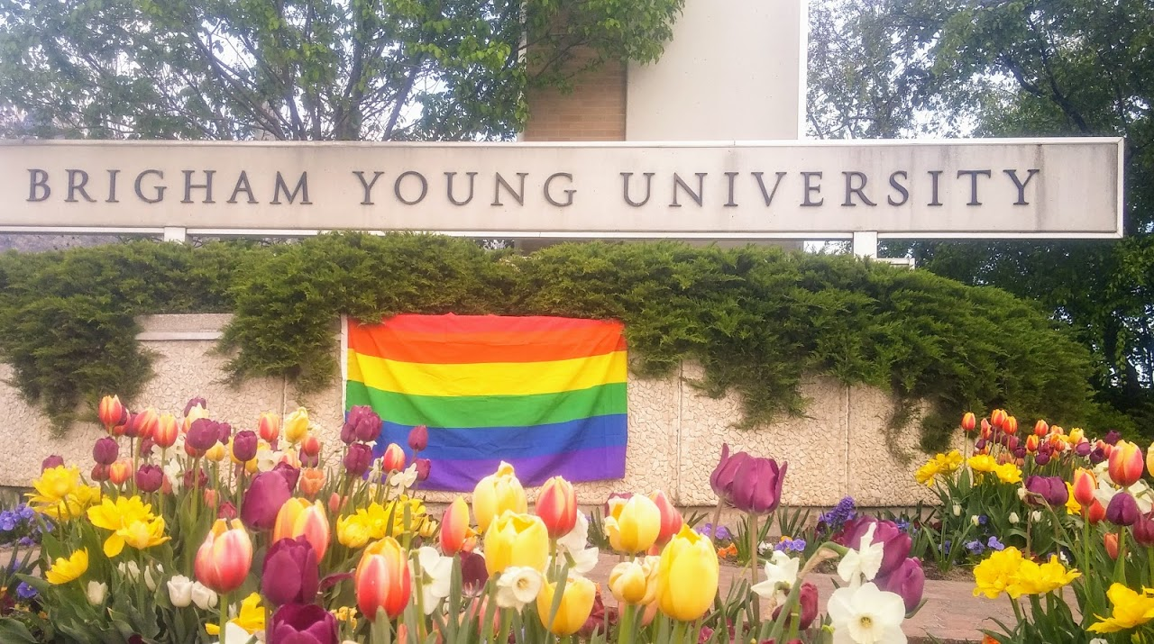 An LGBT flag displayed at the main BYU campus sign